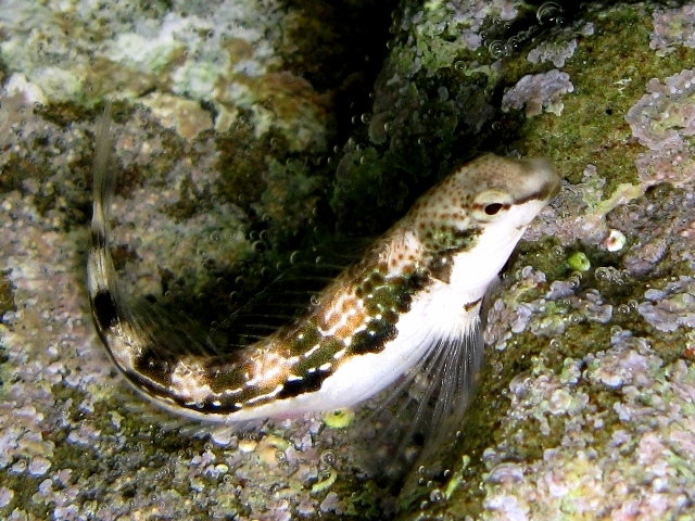 Microlipophrys adriaticus photographed in Rab, Croatia.